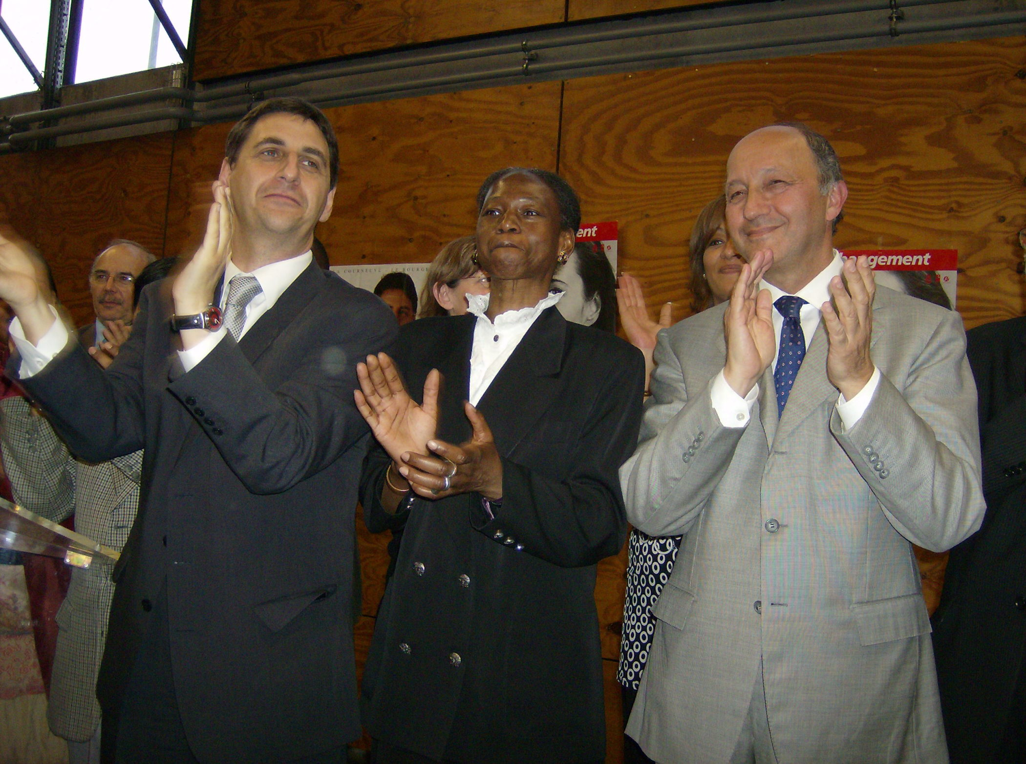 French deputy Daniel Goldberg (left) with Bâ Coulibaly (center) and former French Minister Laurent Fabius (right).